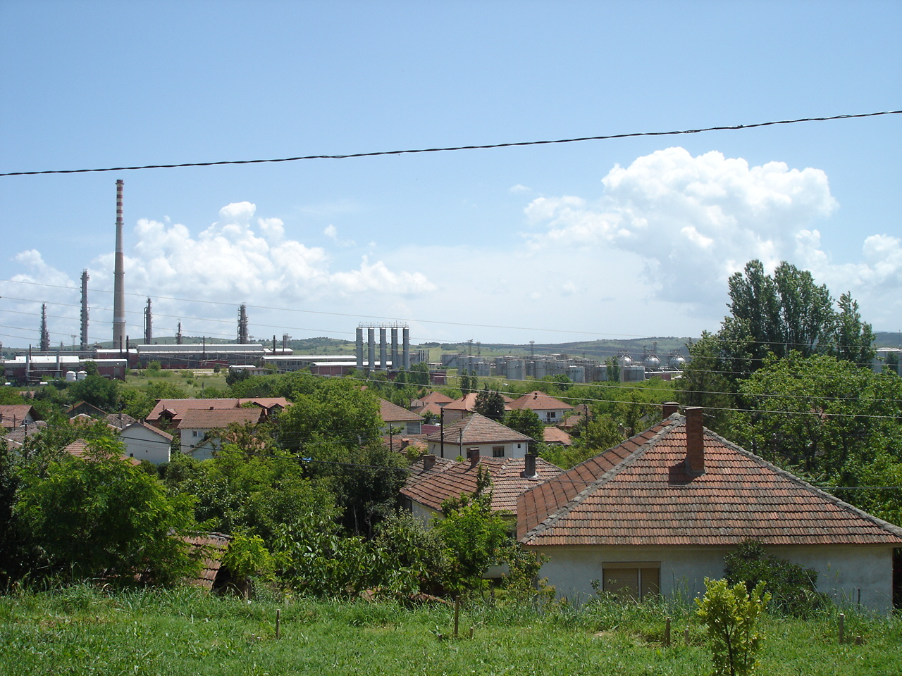 village of Bujkovci, near Skopje, Macedonia